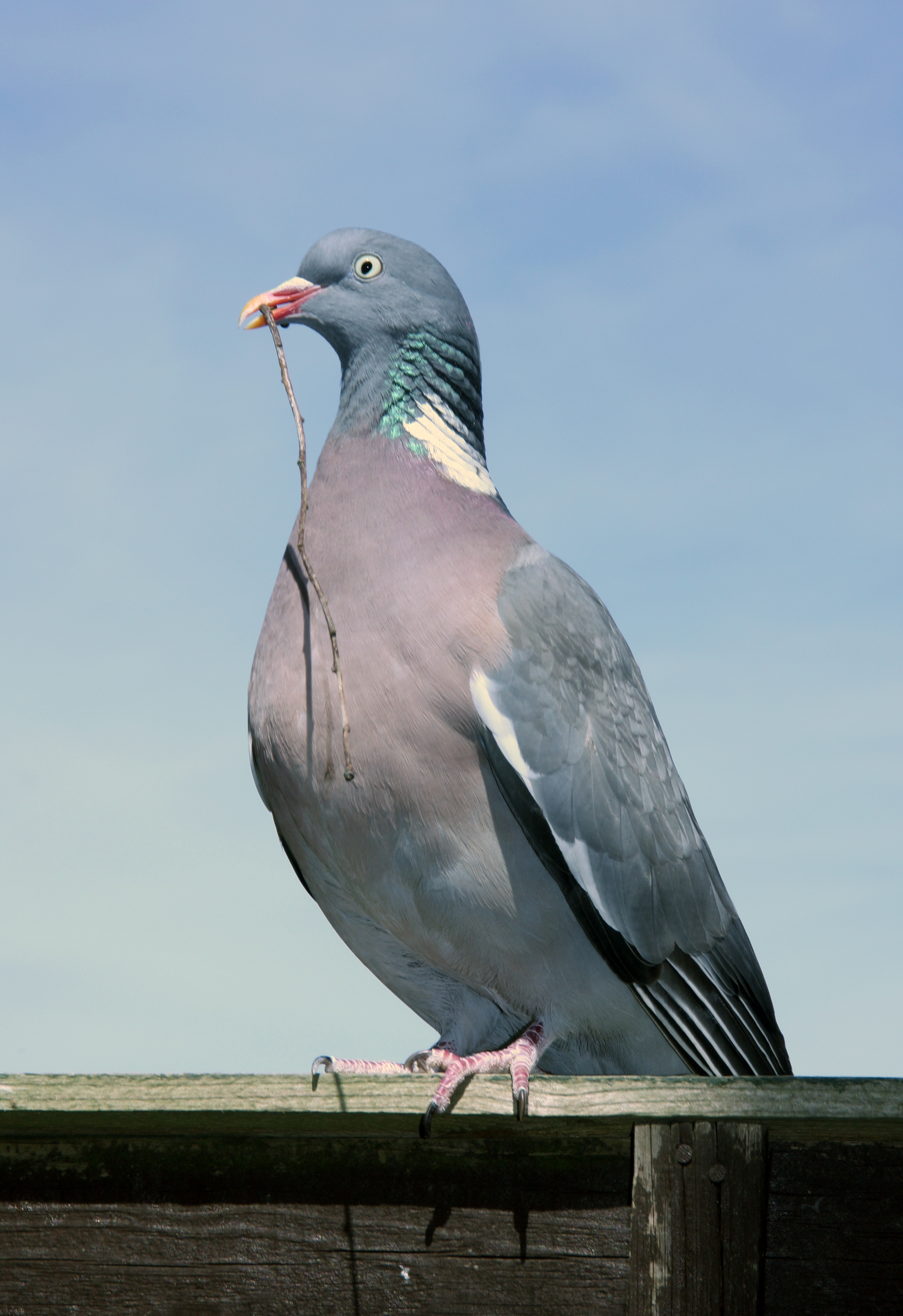 A Common Wood Pigeon wit a twig in its beak.